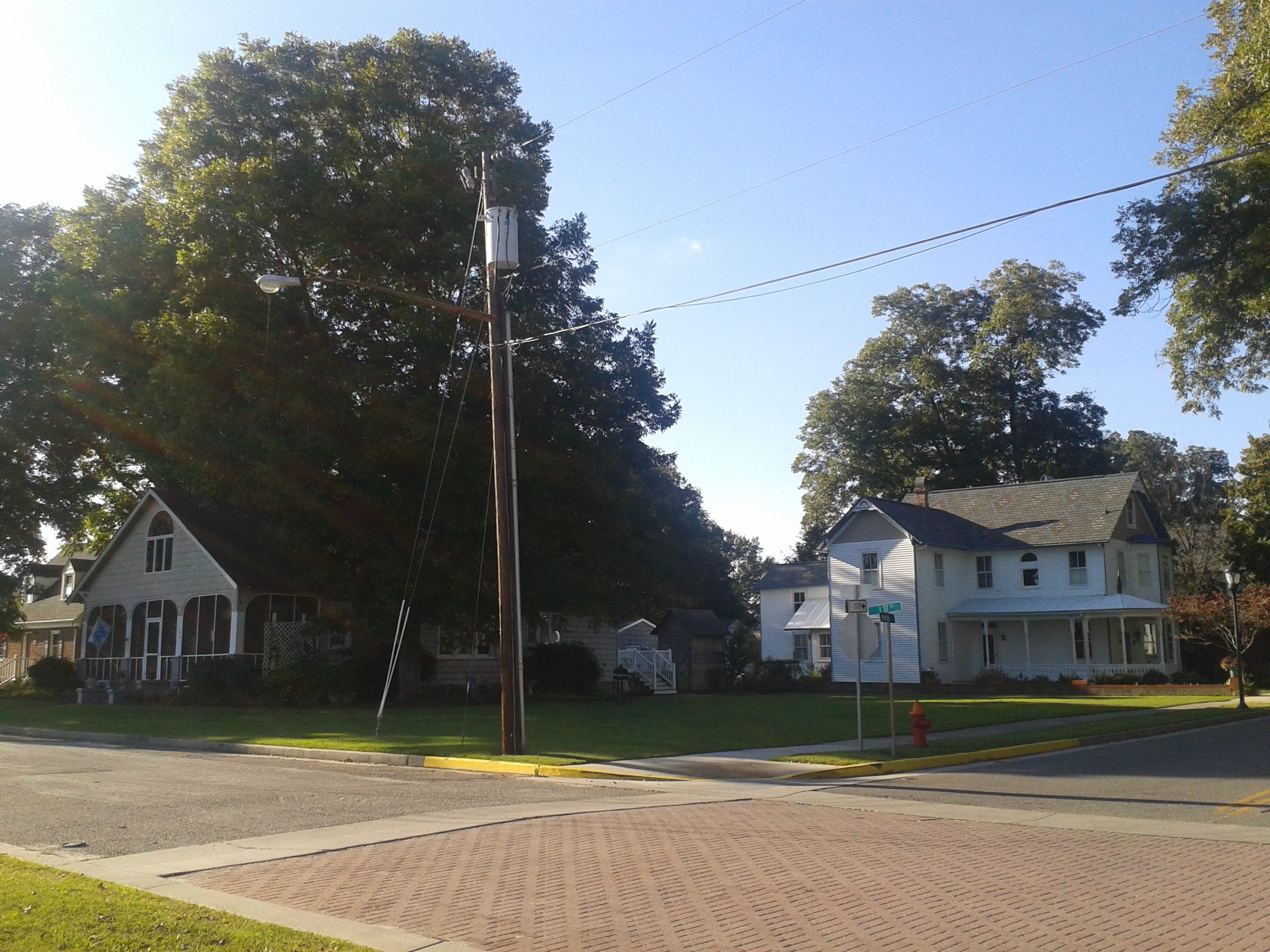 West Point, Virginia. Taken by me in October, 2016